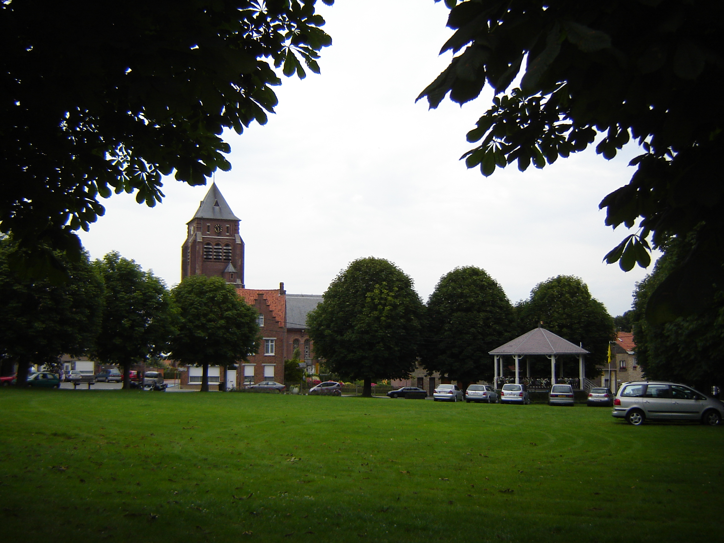 Dries, market square of Kemmel, with the church of Saint Lawrence in background. Kemmel, Heuvelland, West Flanders, Belgium.